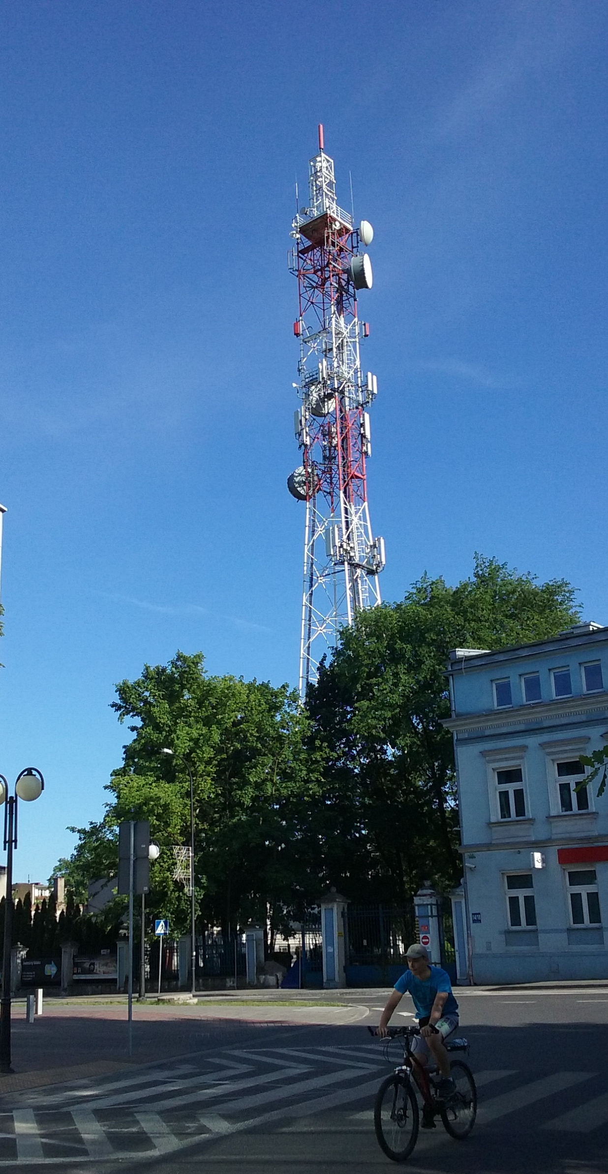 Wysoki na 100 metrów maszt TP Emitel przy Mościckiego w Tomaszowie Mazowieckim. Obsługuje sieci komórkowe oraz TVP1